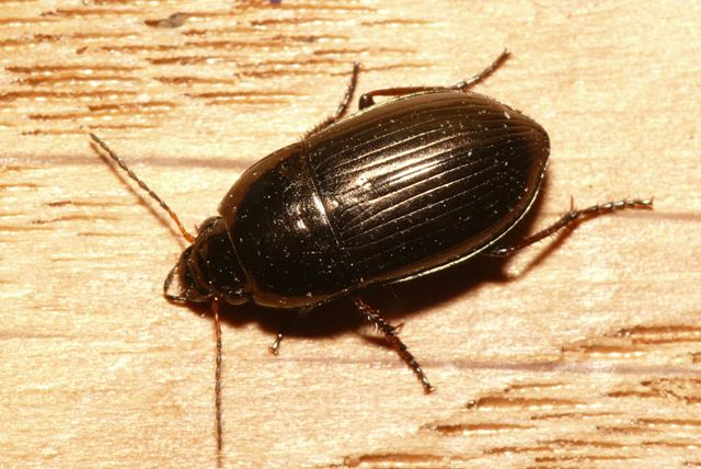 Amara communis, The Netherlands - Rhenen - Blauwe Kamer